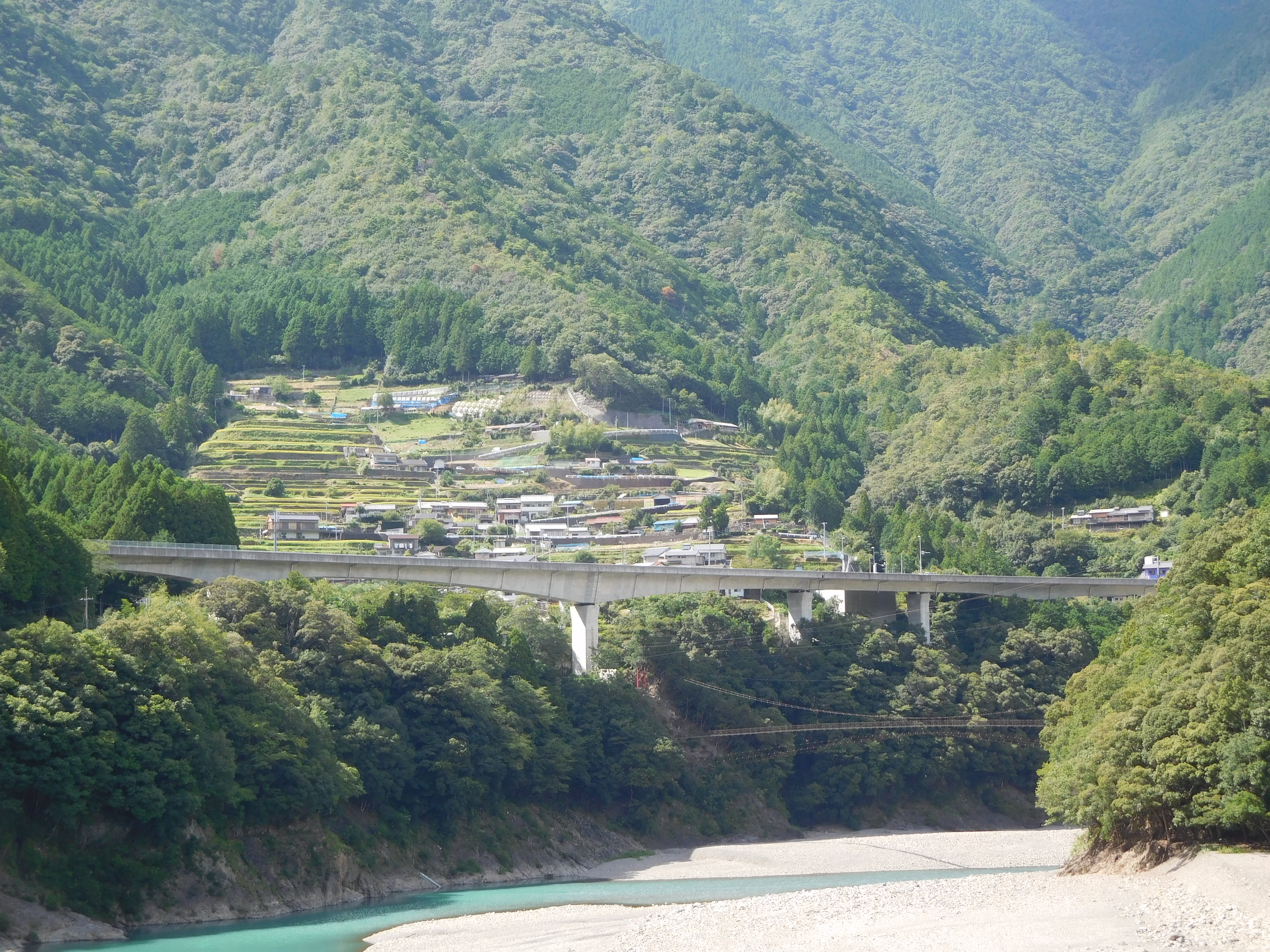 This is Nanairo viaduct and Nanairo settlement, Totsukawa village, Nara prefecture, Japan.